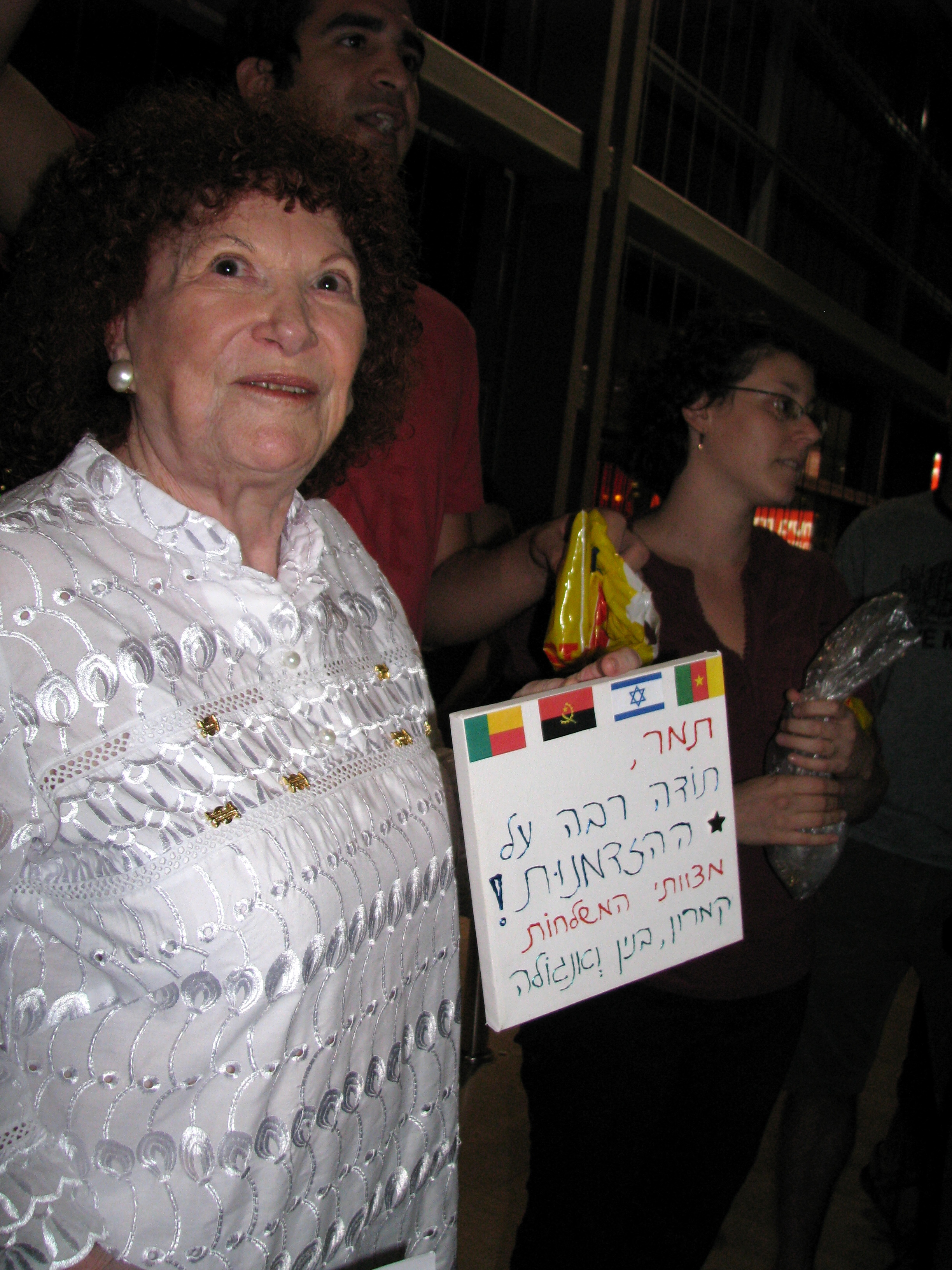 Tamar Golan, was an Israeli journalist and diplomat and head of the Africa Center at Ben Gurion University